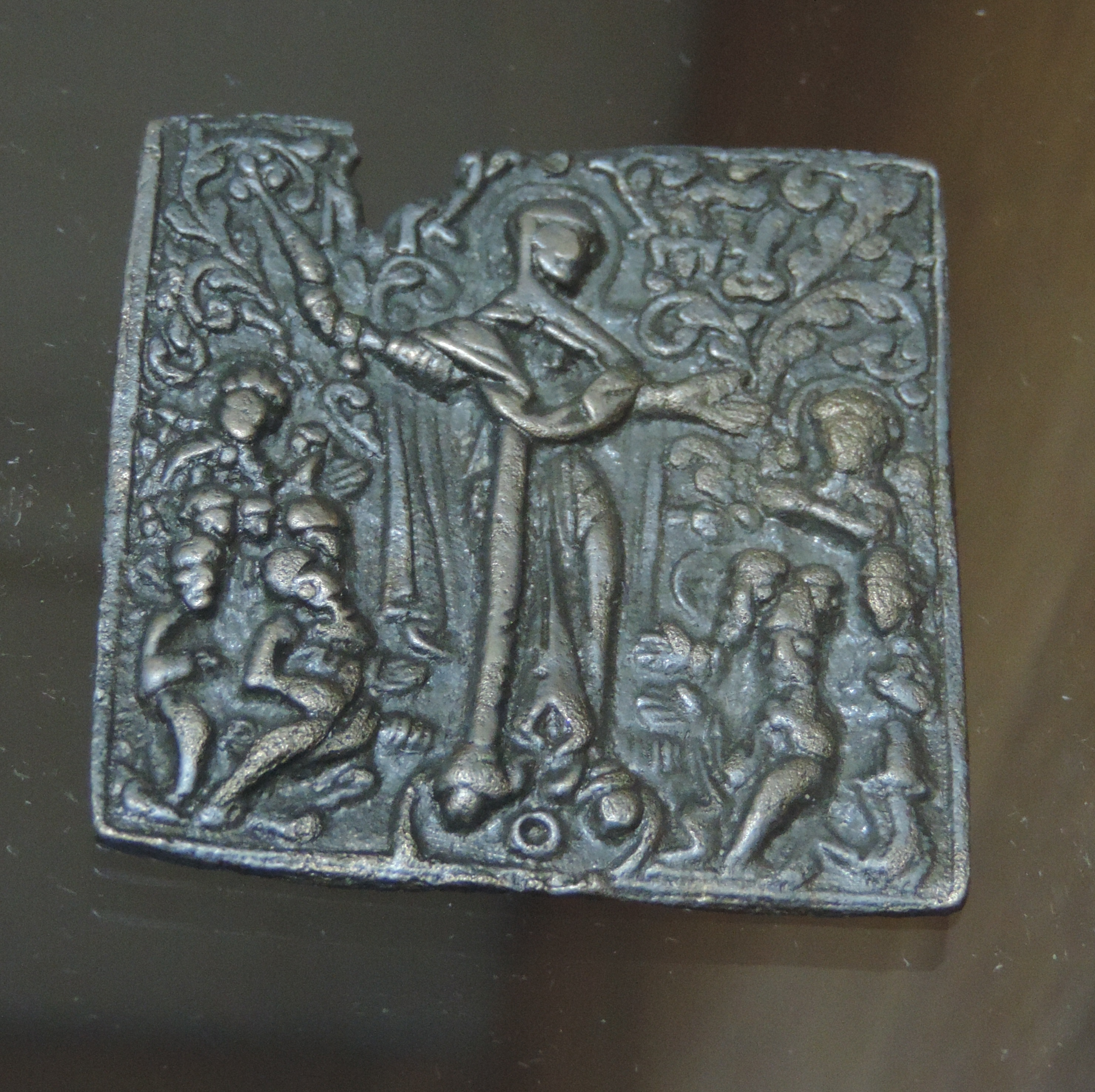 Jewel from a treasure found in a medieval necropolis near the village of Negovanovtsi. Exhibit of the Regional History Museum "Konaka" in Vidin, Bulgaria